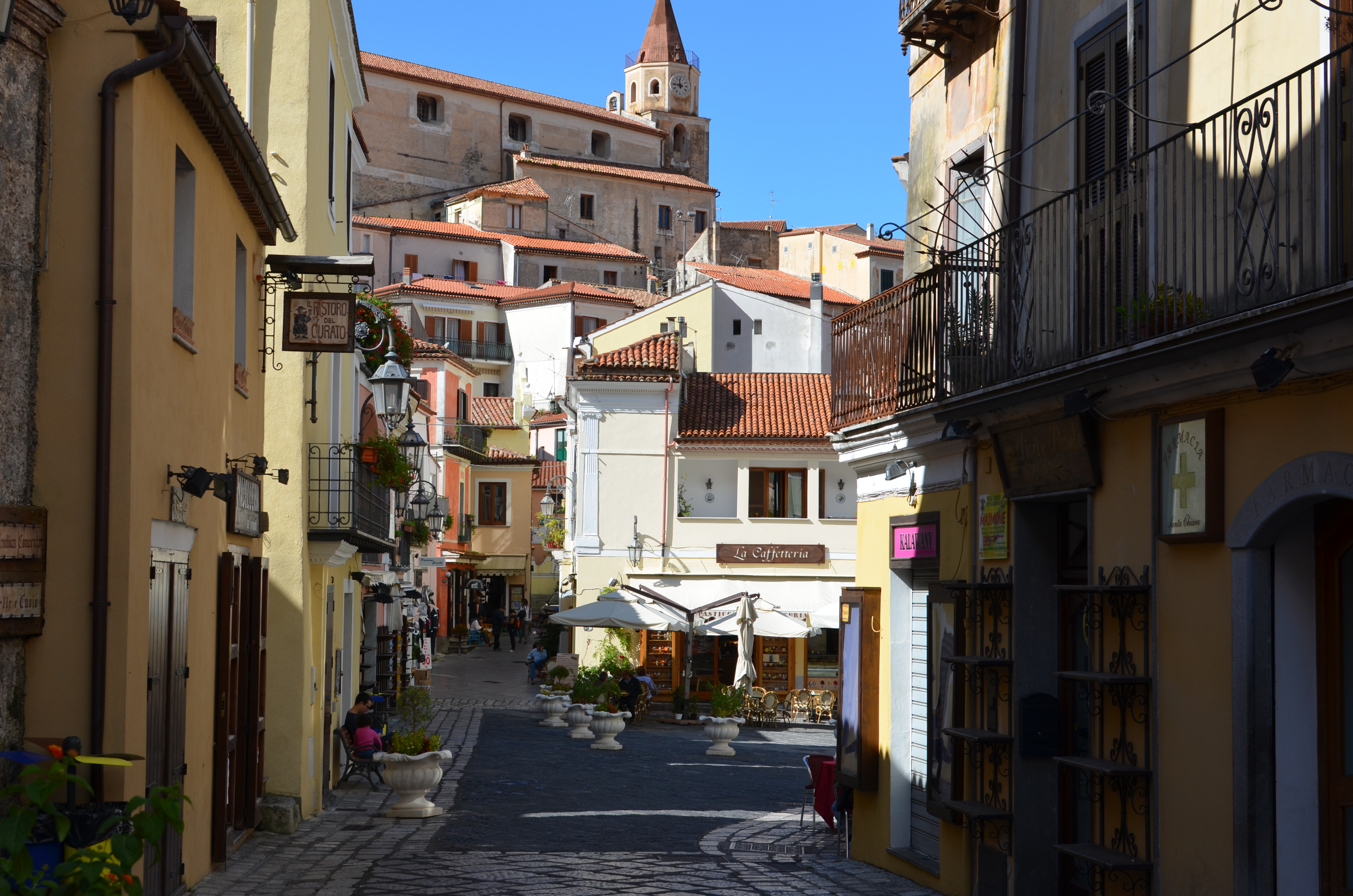 The old town of Maratea. The church of Santa Maria Maggiore can be seen in the background